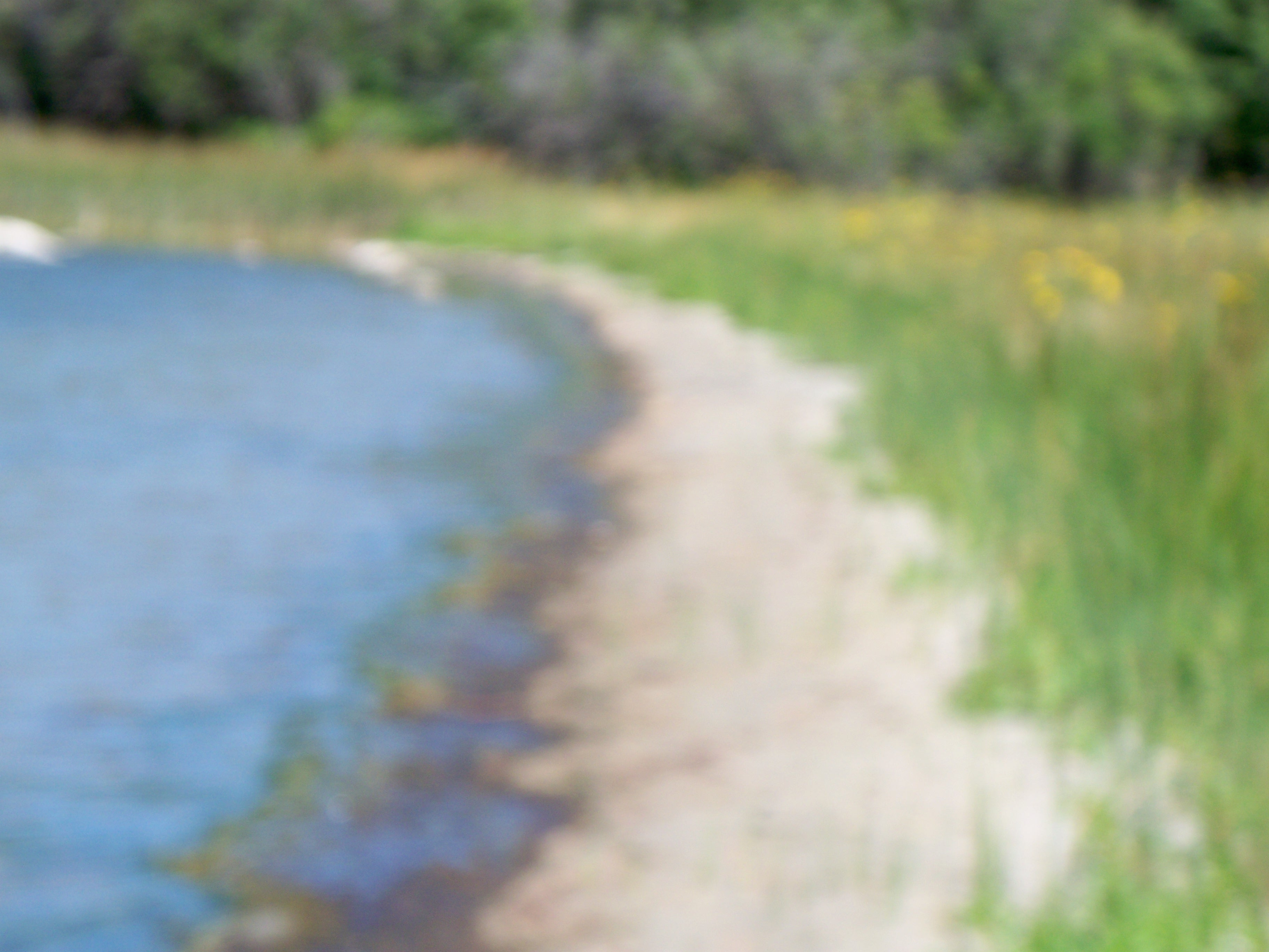 Castlewood lake's beach.